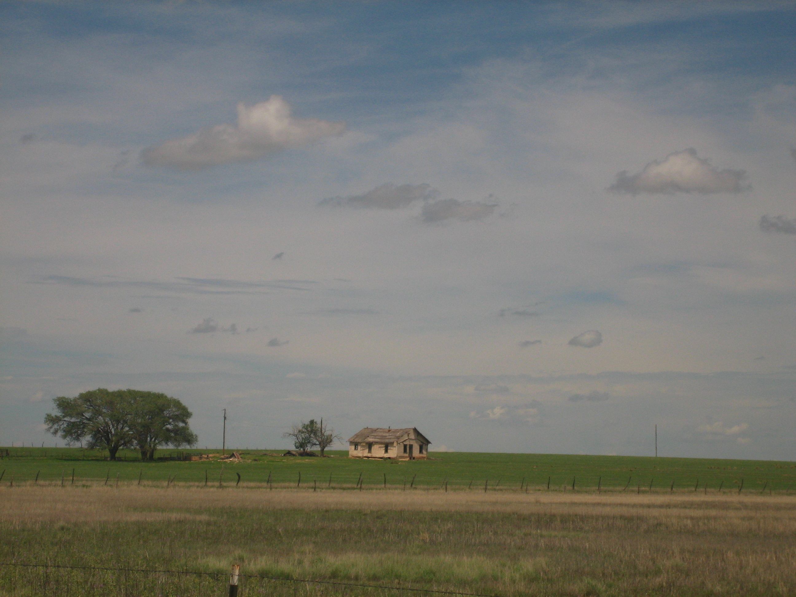 I took photo on July 11, 2008.Billy Hathorn (talk) 20:34, 22 July 2008 (UTC) Abandoned house on New Mexico Highway 209 north of Clovis.